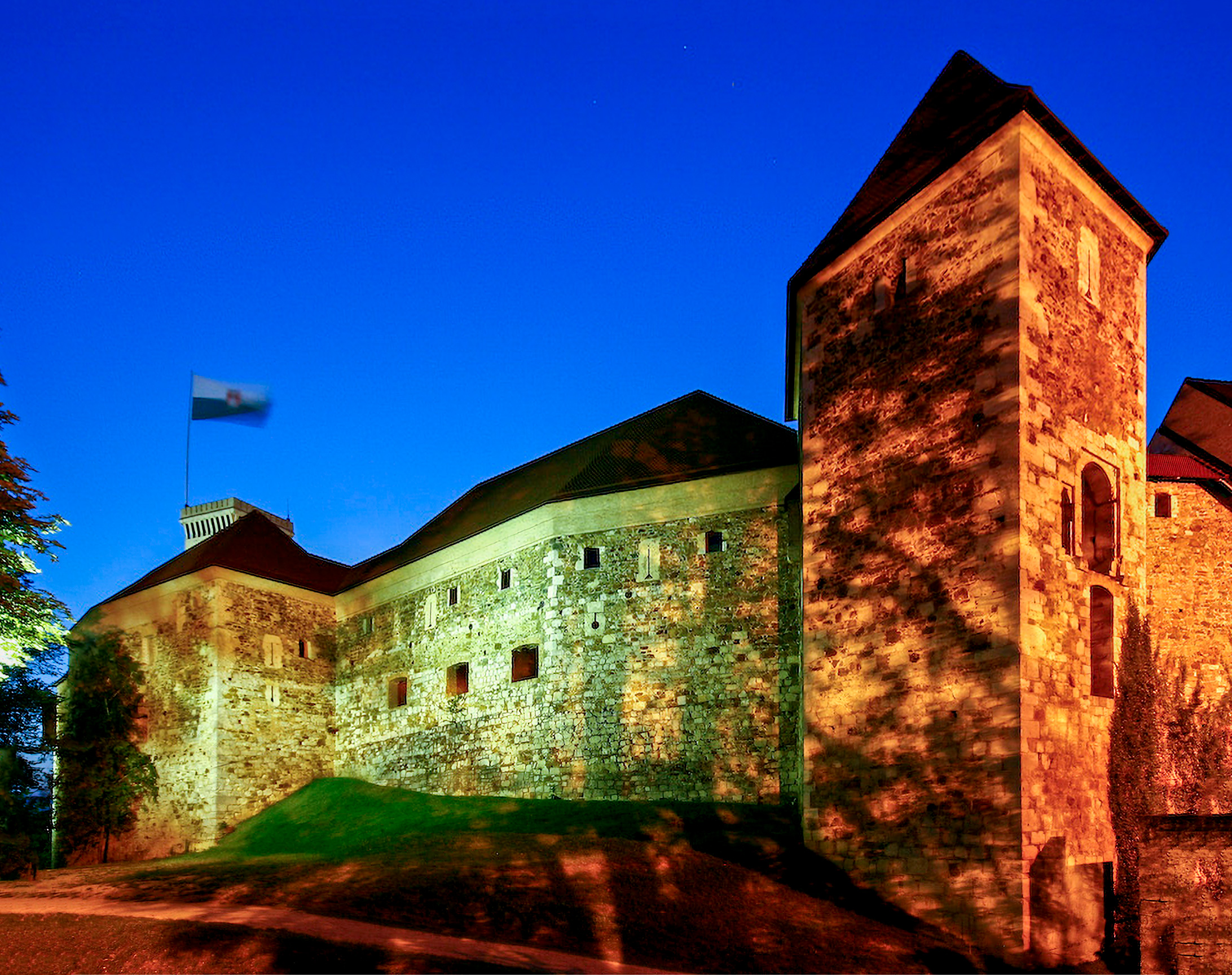 Ljubljana Castle at night